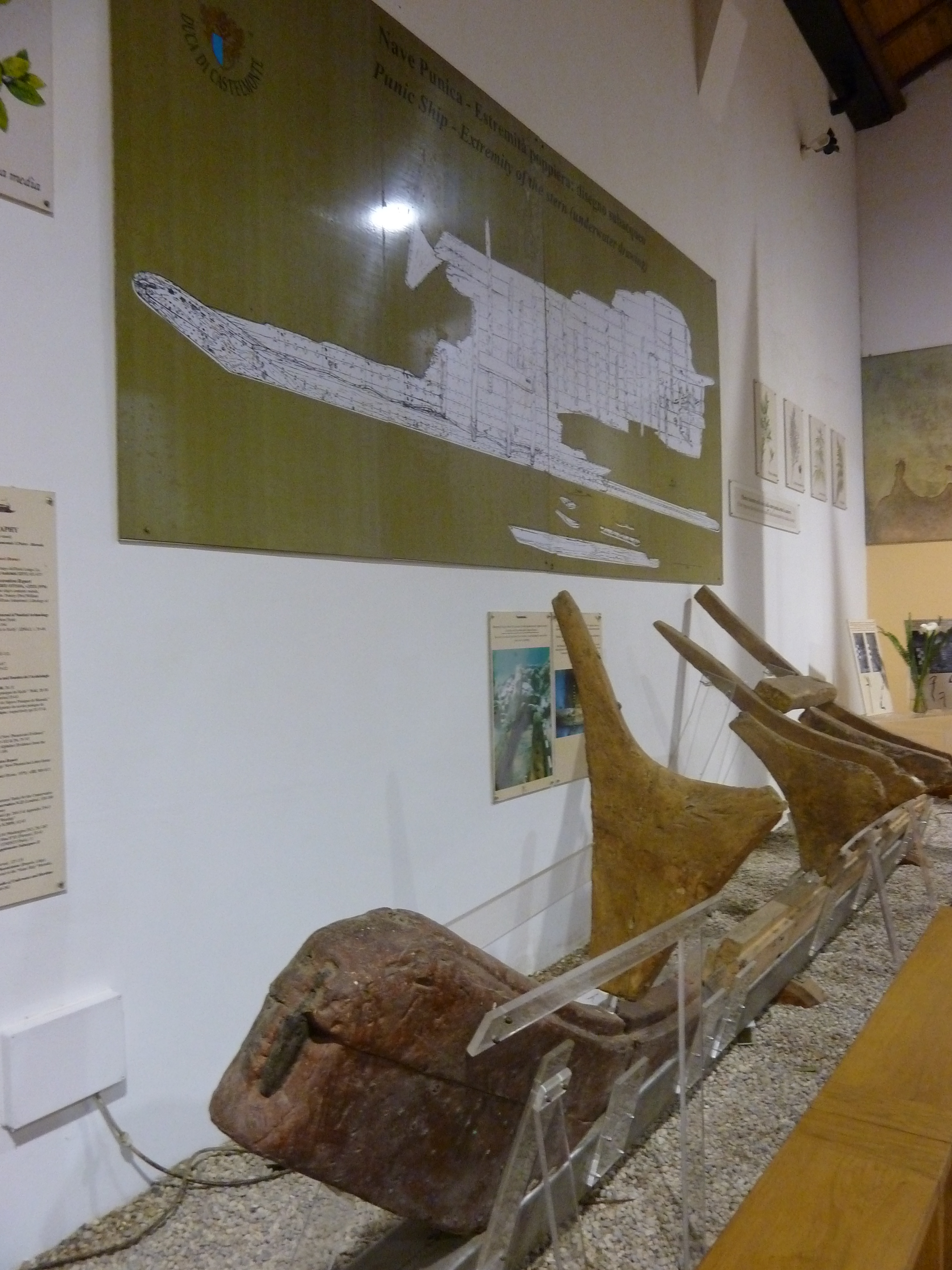 Stern and keel of a Punic ship found off Marsala, Sicily